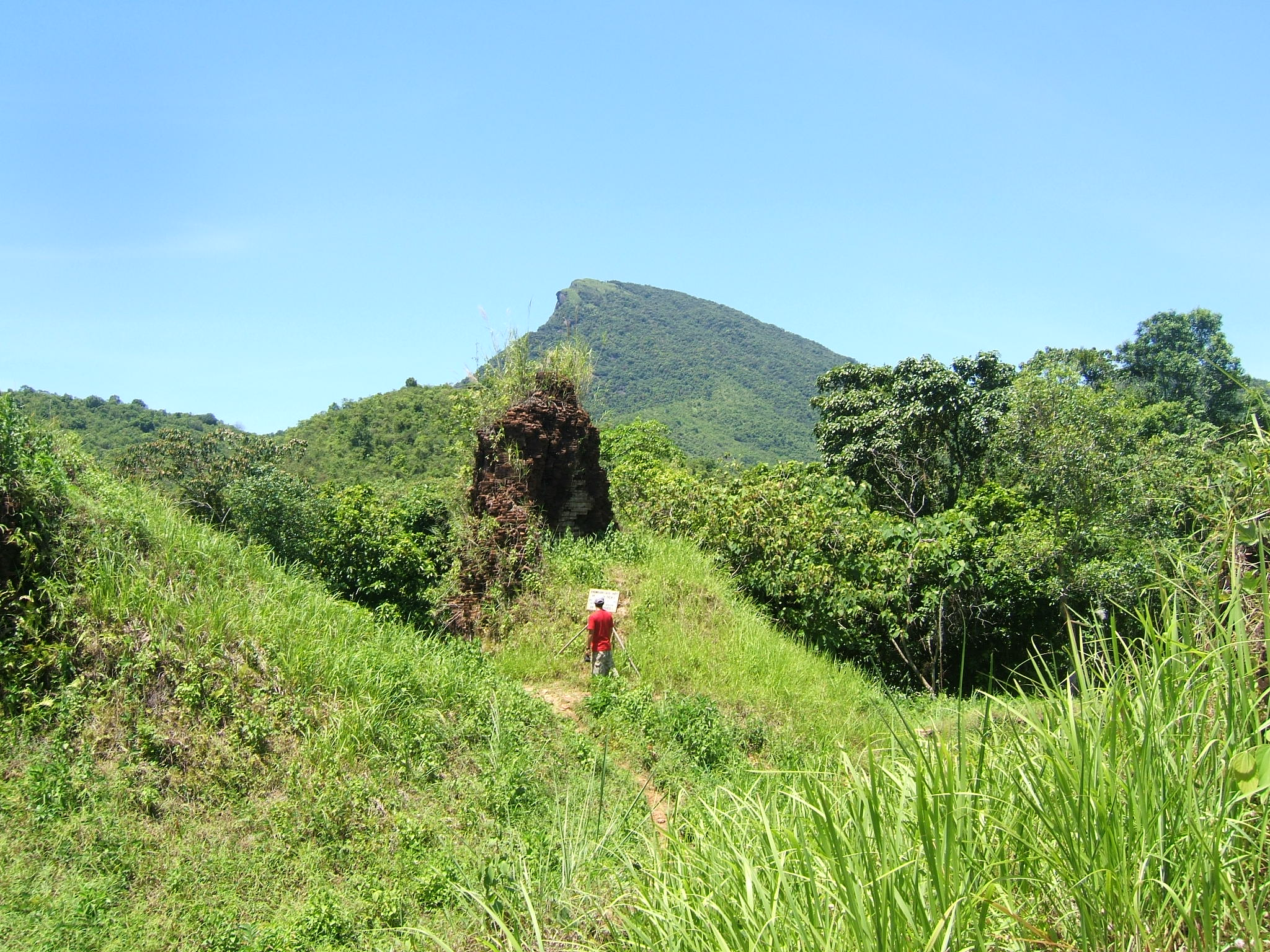 Remains of My Son sanctuary F5 and Răng Mèo mountain on the background